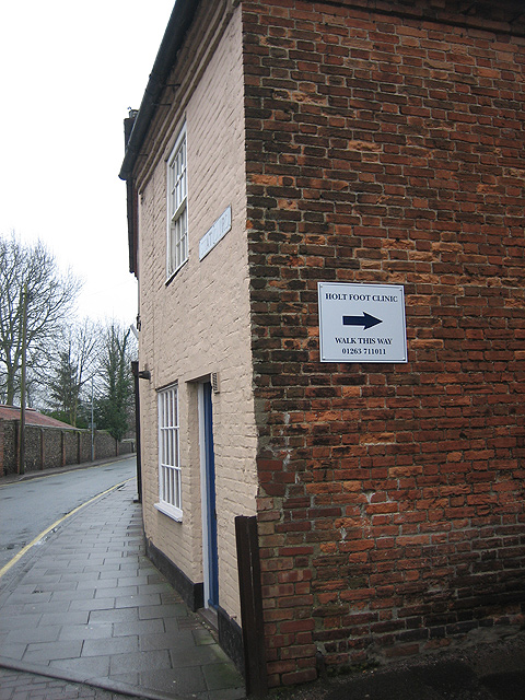 "Walk this way" at the start of Station Road. An appropriate invitation to the Holt Foot Clinic at the point where Market Place becomes Station Road. Incidentally, this road does not lead to the location of the present station but the old site, now overlaid by a small bypass. A close inspection of the lowest past of the red brick wall will reveal that it has been repaired more than once, presumably after vehicles had not "walked this way" but had rather inexpertly swung wide while driving into the narrow opening. 618346 is directly behind the photographer.